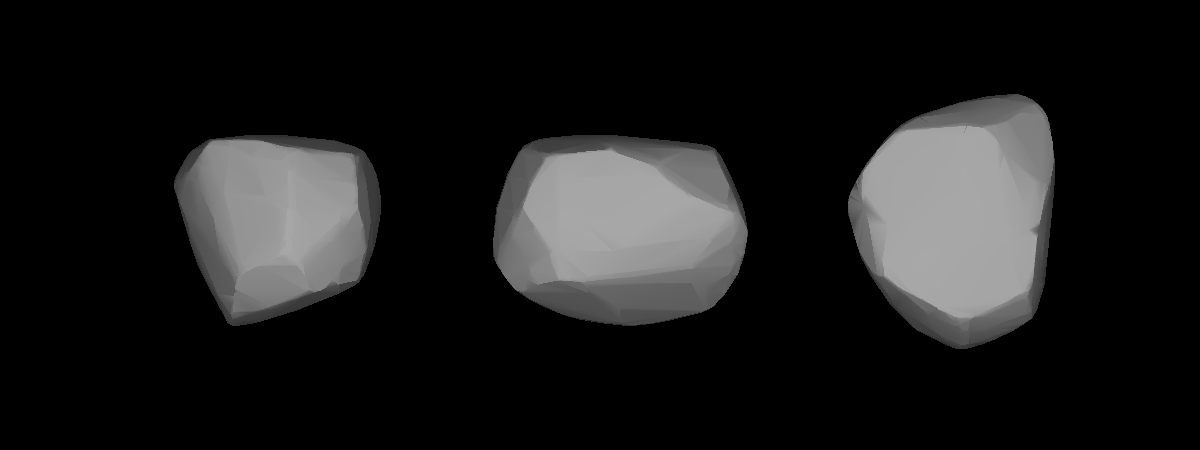 A three-dimensional model of 416 Vaticana that was computed using light curve inversion techniques.